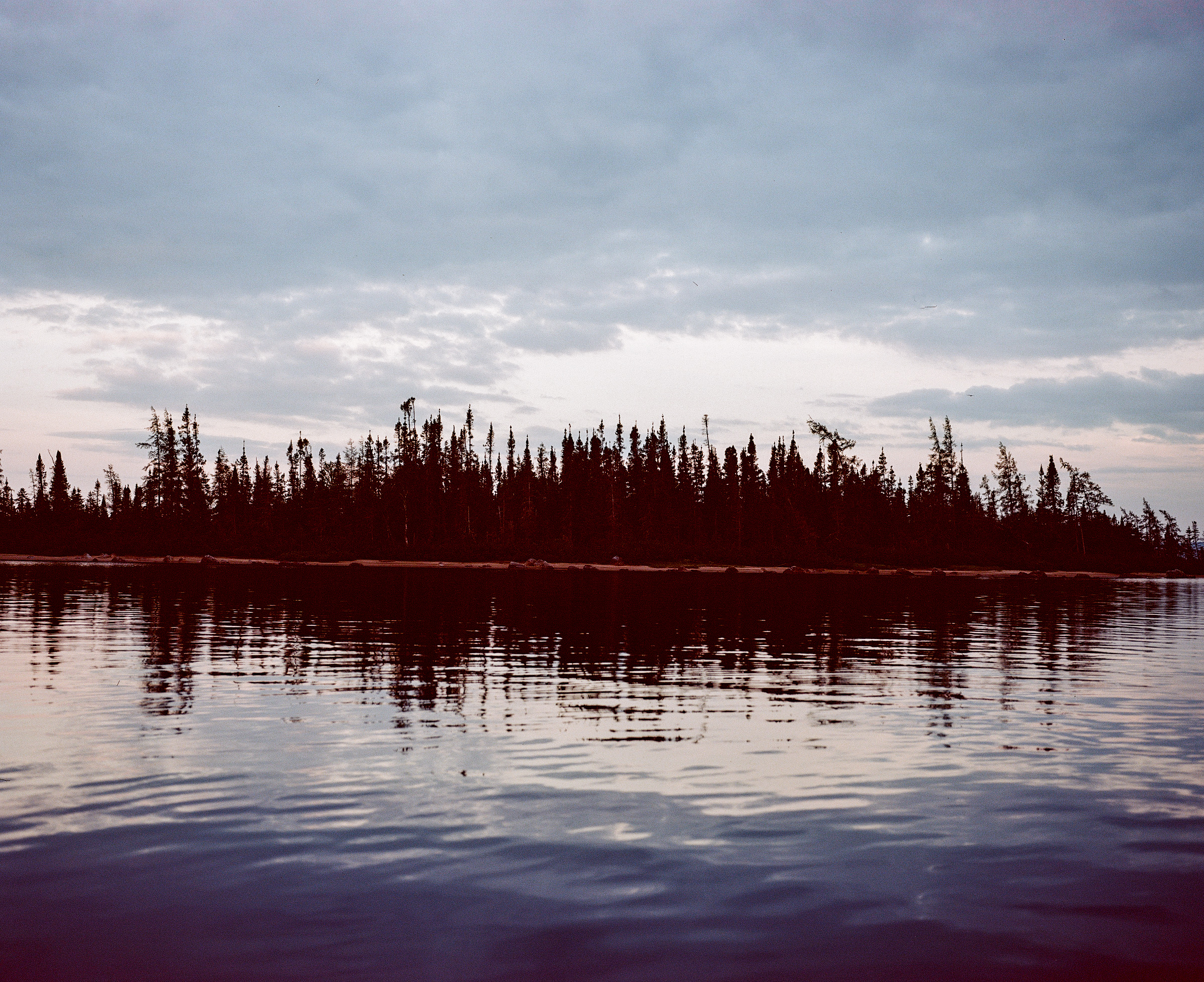 View from shoreline on a lake on the Eastmain River. Taken in July 2018.